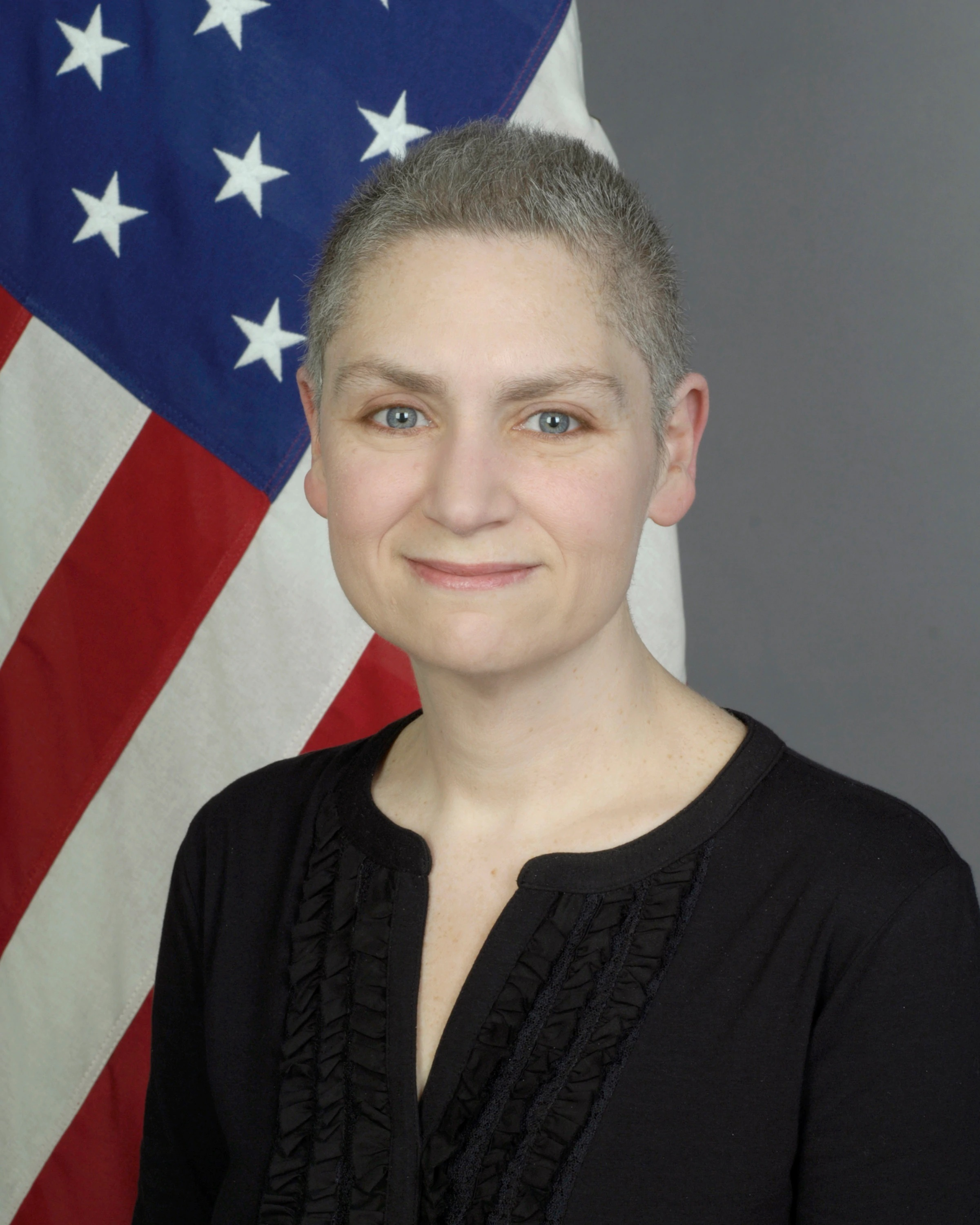 Tina S. Kaidanow, Coordinator for Counterterrorism in the U.S. Department of State as of 2015